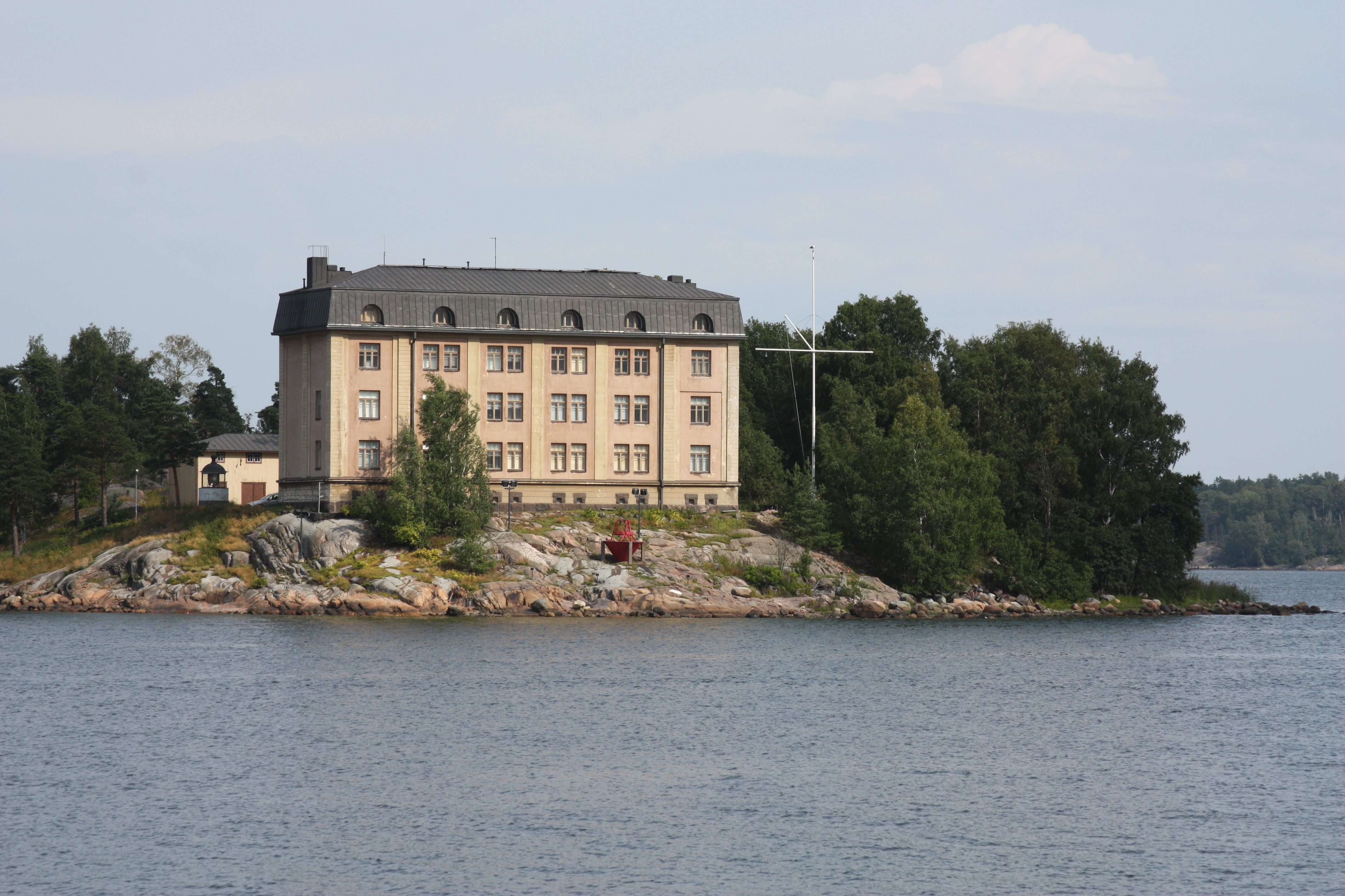 Former maritime museum in Hylkysaari island.